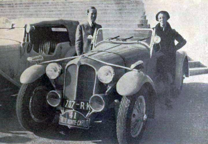 Laury and Lucy Schell, second place overall in rallye Monte-Carlo 1936 in a Delahaye 135 Figoni 18CV Sport 6 cylindres, entry #41.